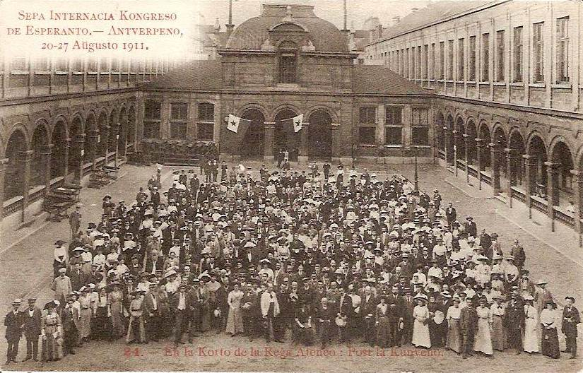 Esepat,o Congress in antwerp (Belgium) Sunday Aug 20-27th 1911